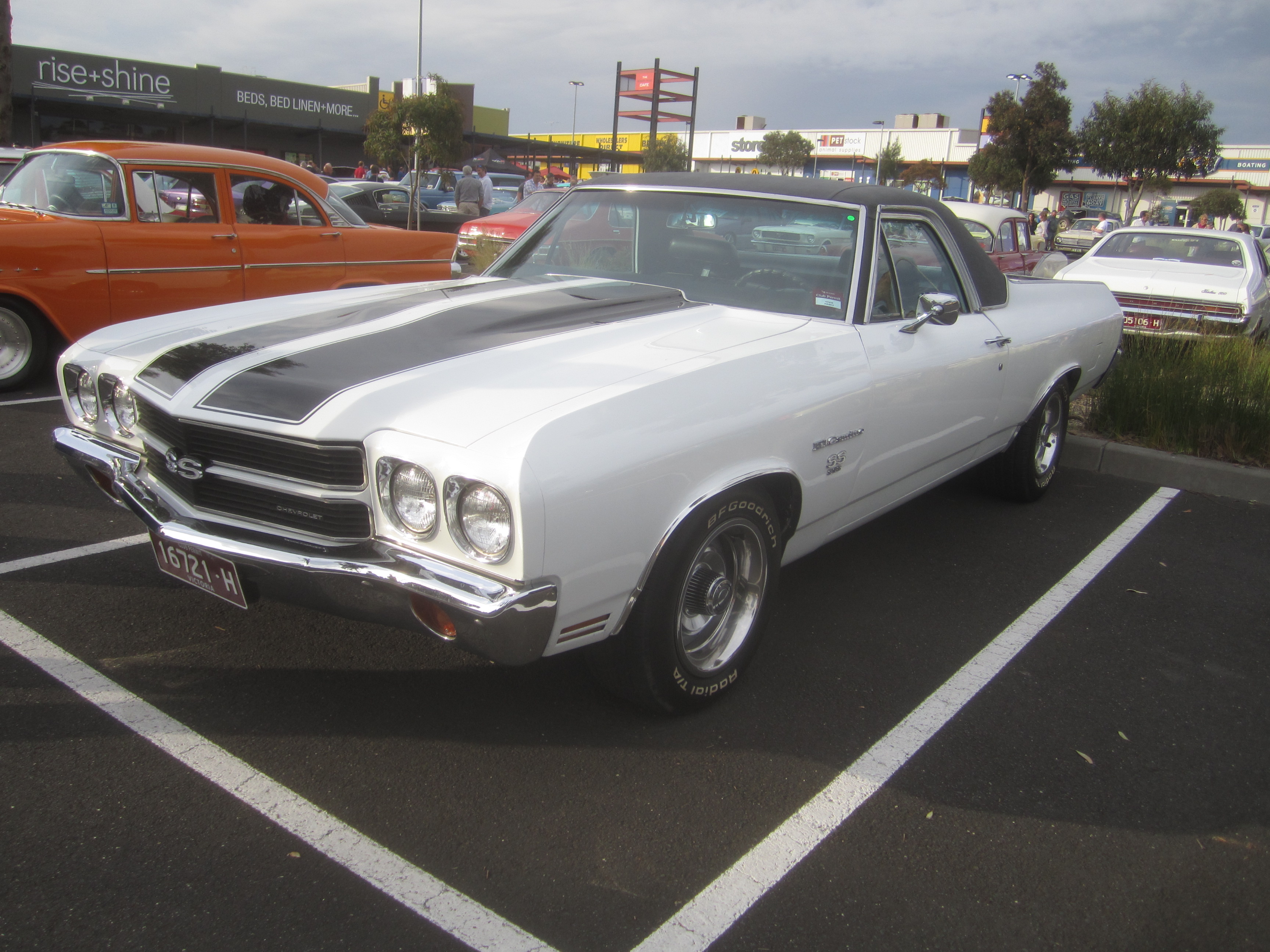 From 1964-1977 the El Camino Coupe Utility was built on the Chevelle platform (later on the Malibu platform) It was identical to the Chevelle from the B pillar forward. Like the 1970 Chevele, the El Camino was squared up at the front in 1970 and got a new interior. The SS was now available with 350hp 396 or now 454 in 360hp LS5 or 450hp LS6 and again in Sports Coupe, Convertible or El Camino.The SS got the Power Dome Hood and Black grille.